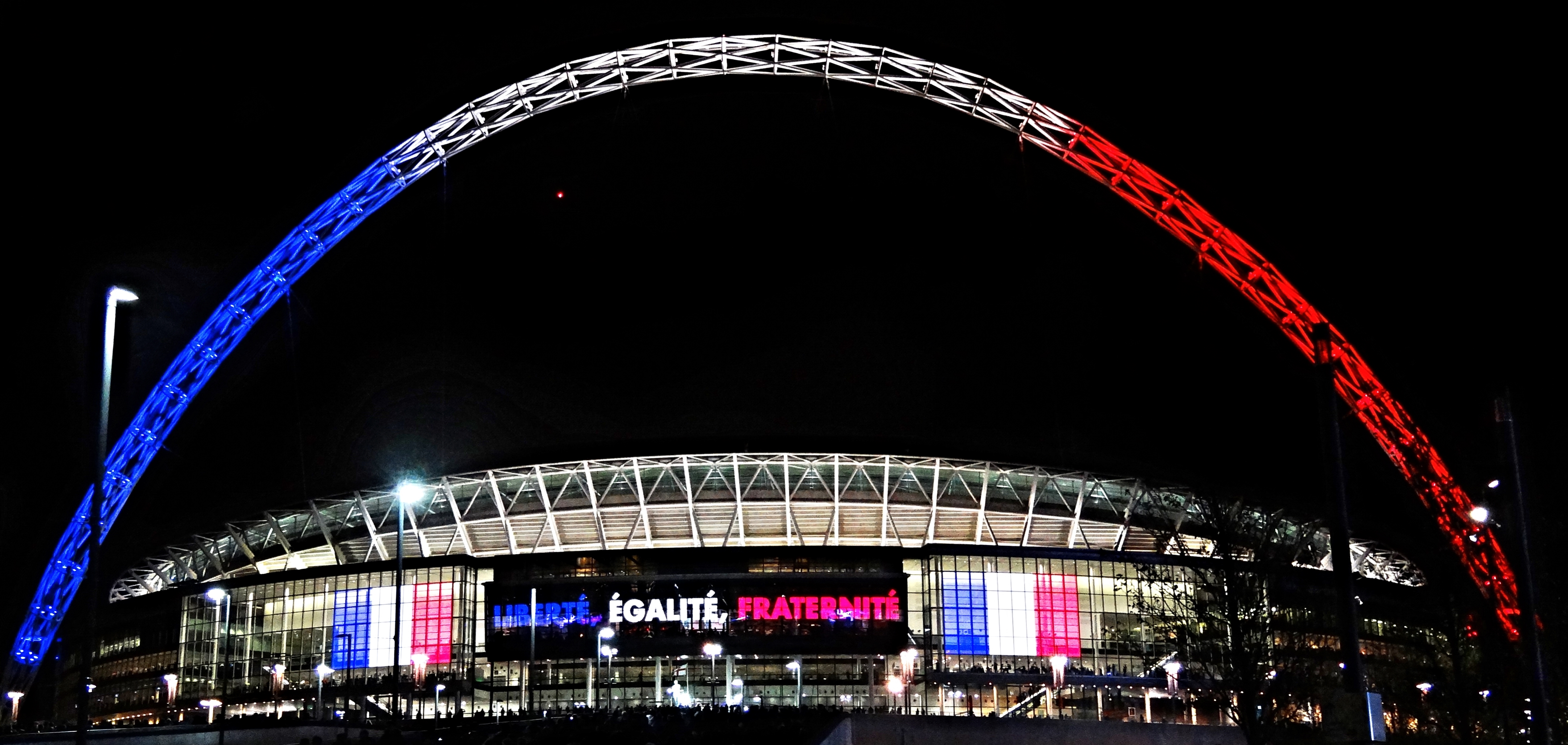 Wembley lit up like the French flag